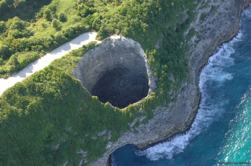 Gueule Grand Gouffre, a geomorphological complex including a littoral chasm ( from a roof collapse) and a natural arch in Saint-Louis de Marie-Galante, Guadeloupe.